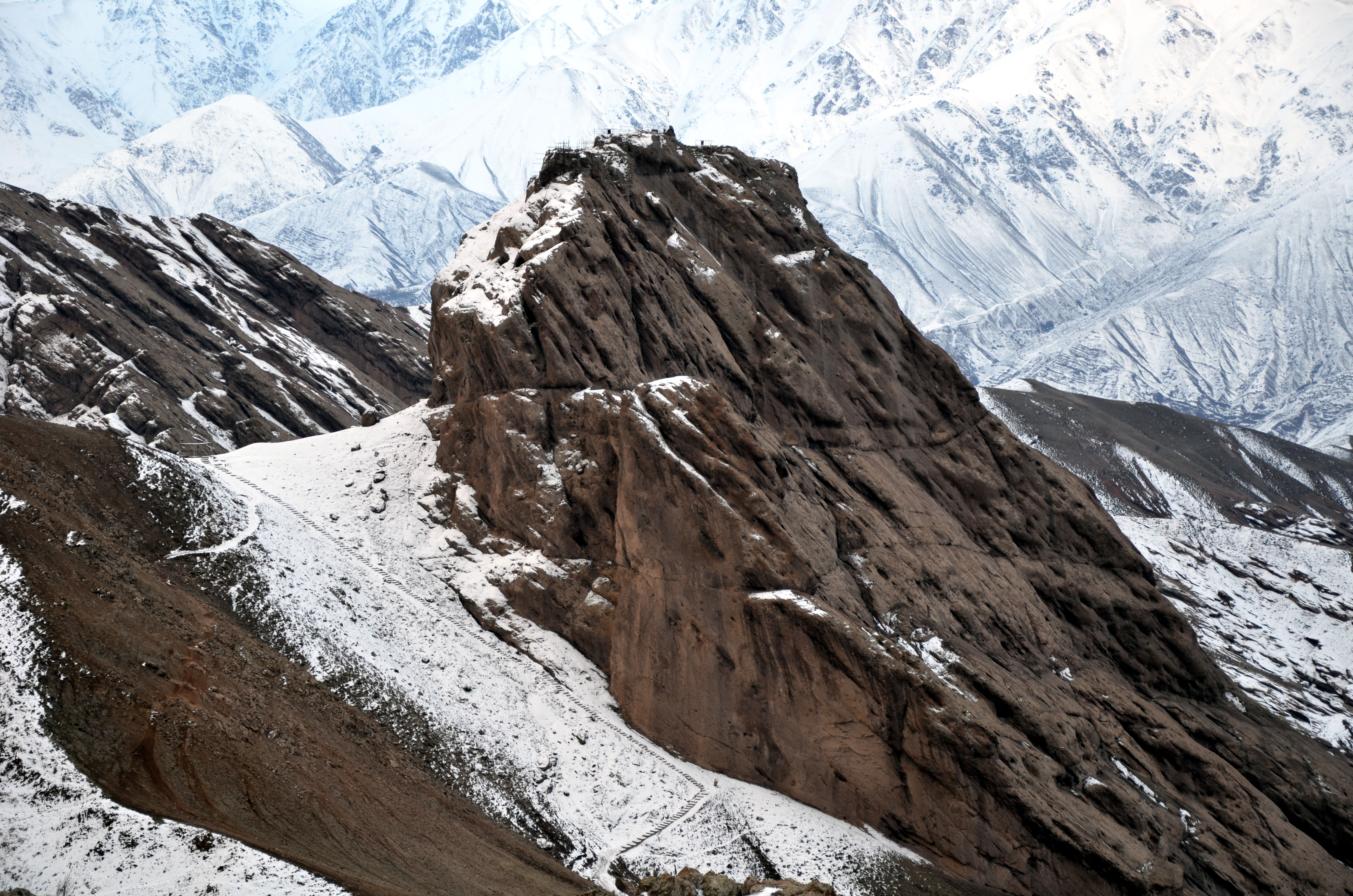 Qazvin - Alamout Castle